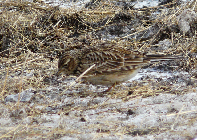 Skylark